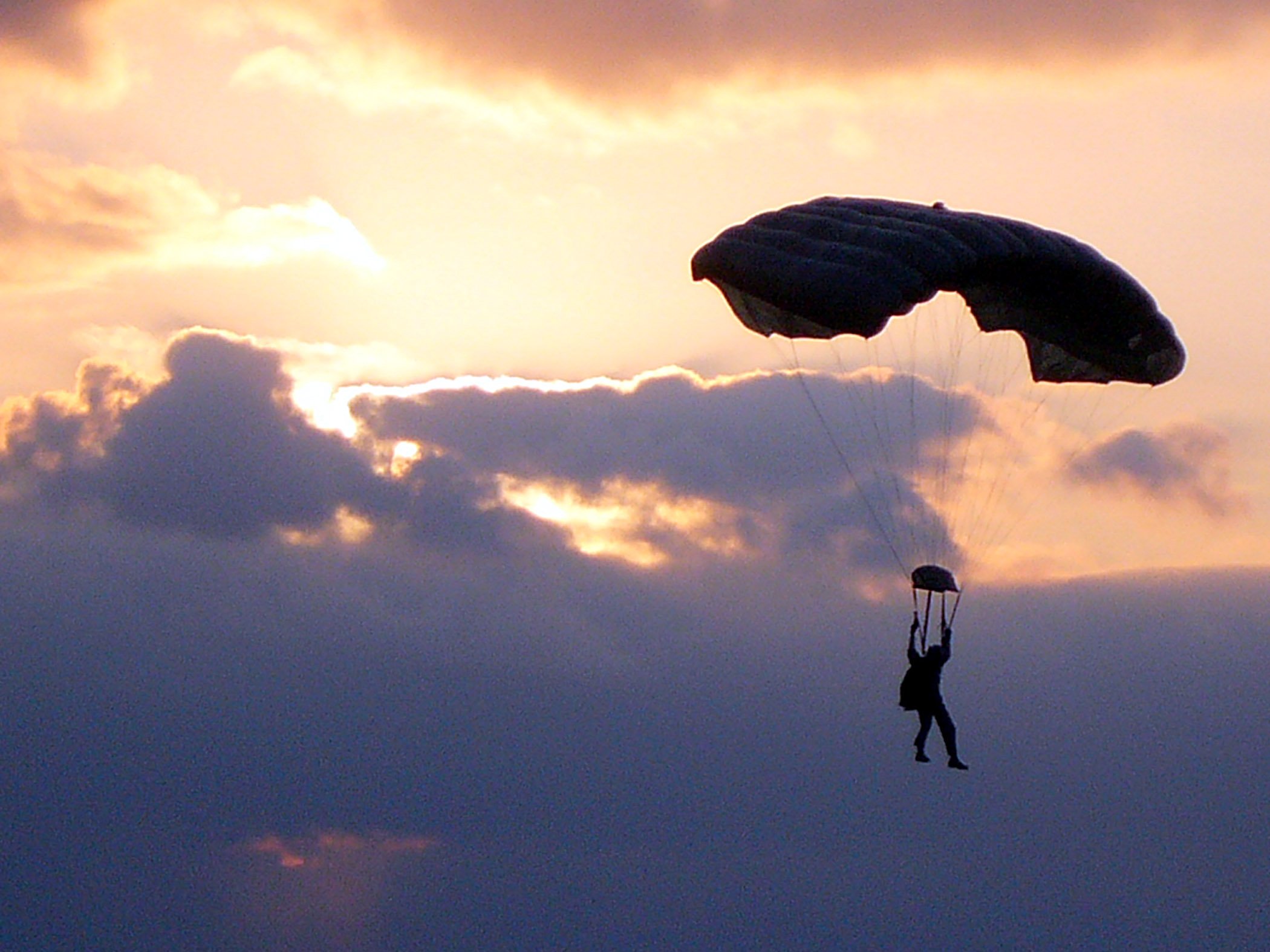 Marine from G Company, 2nd Marine Special Operations Battalion, glides through the sunset sky towards his target during recent military freefall operations at Marine Corps Base Camp Lejeune.